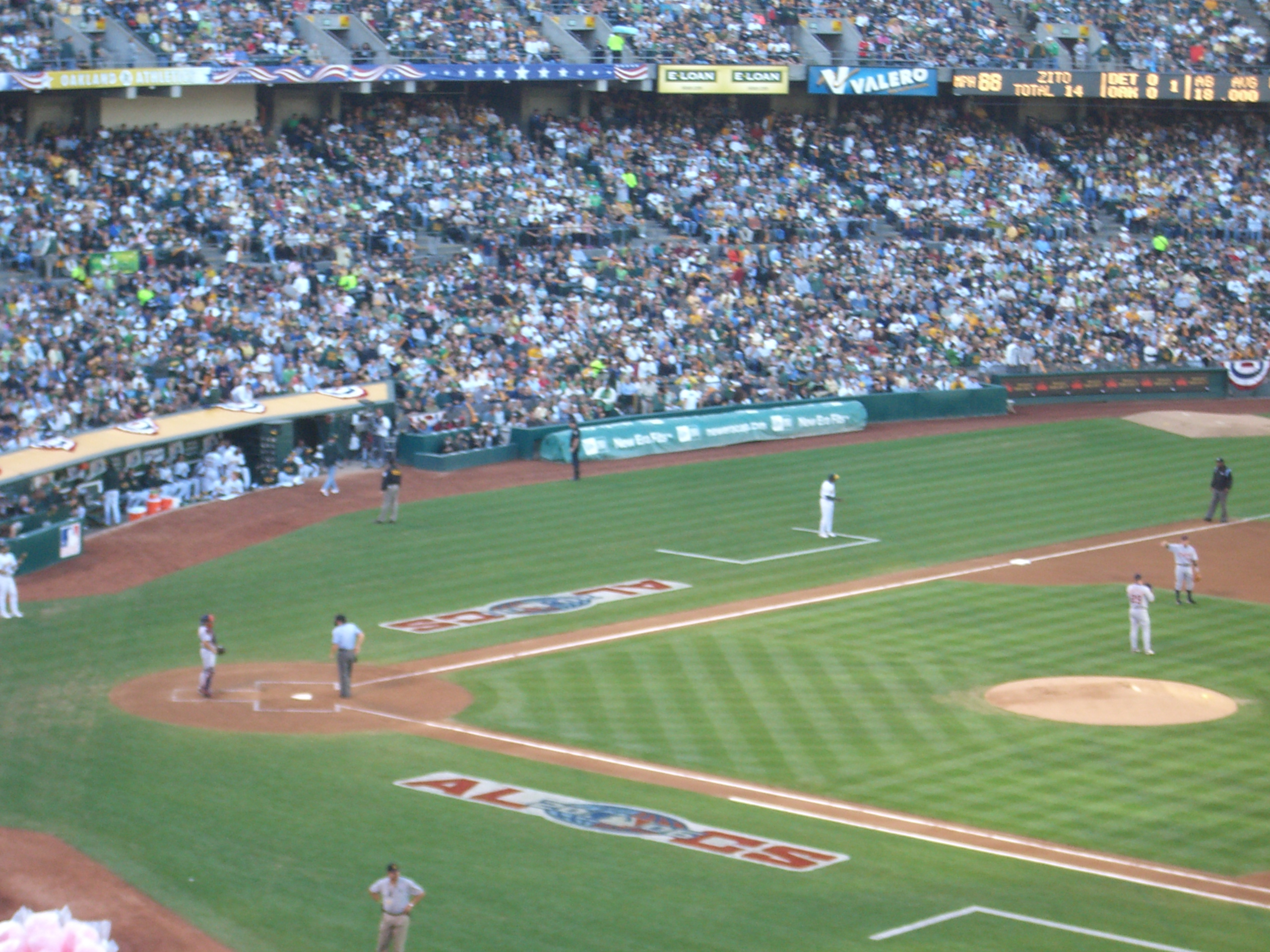 2006 American League Championship Series Game 1 07:01, 13 September 2007 . . Calbear22 . . 2560×1920 (1.83 MB)